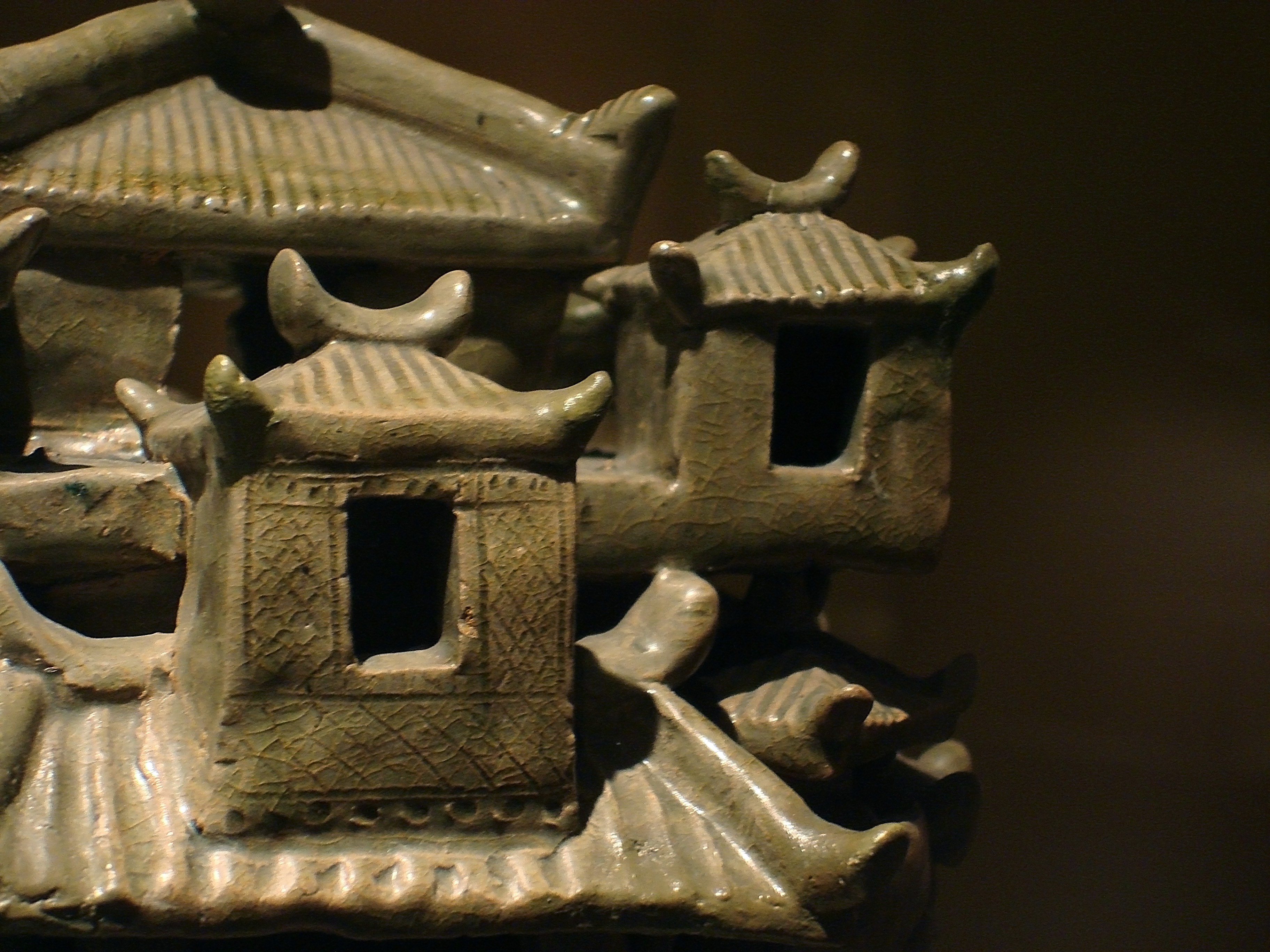 Detail of a celadon Soul Vase. Exhibition "Treasures of China", Canadian Museum of Civilization, 2007. Western Jin Dynasty (A.D. 265 - 326) Excavated at Shaoxing, Zhejiang Province Vessels like this were believed to be "residences for the souls of the dead".